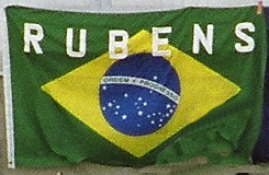 Photo by Paddy Briggs